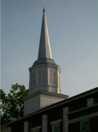 Historic belltower at Jonesborough United Methodist Church, Jonesborough, TN